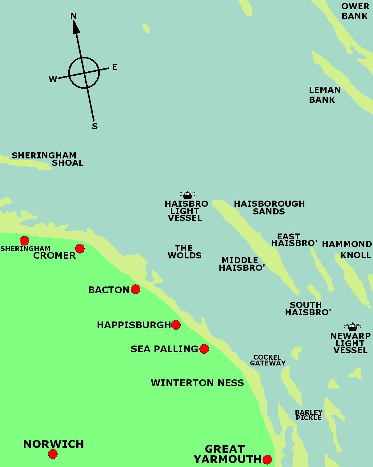 A map of the area of the North Norfolk coast showing sand banks in the area